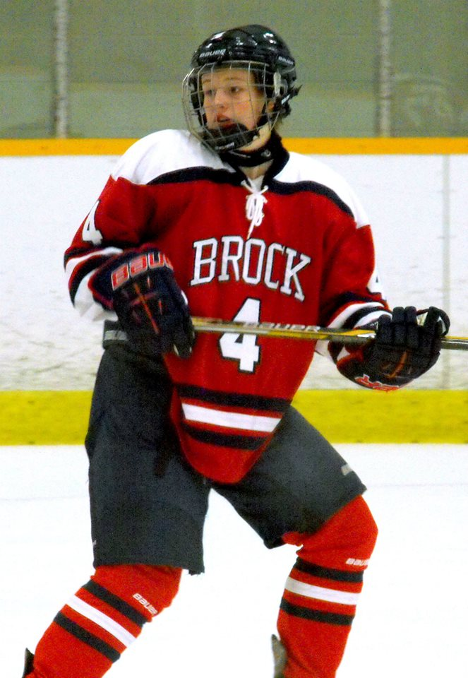 This photo was taken by Devan Mighton during the 2014-15 OUA season.